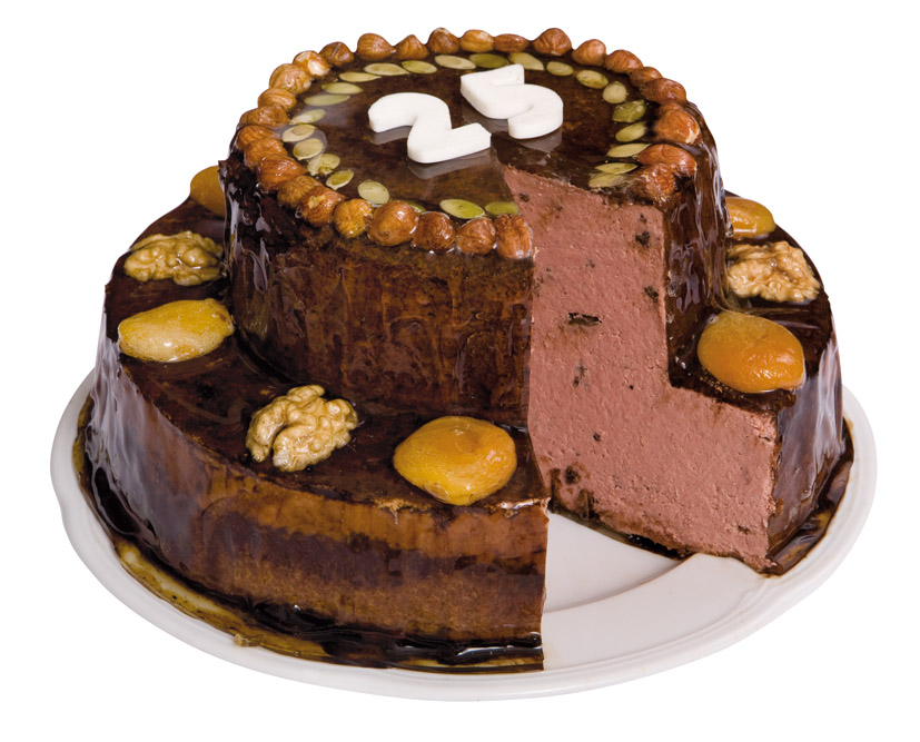 pate cake Pâté du Chef